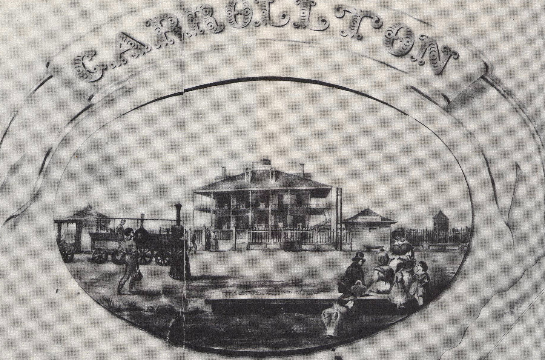 Carrollton, Louisiana (now a section of the city of New Orleans), 1840. Illustration showing steam locomotive of the New Orleans & Carrollton Rail-Road Company (later to become the St. Charles Avenue Streetcar line) in front of the old Carrollton Hotel. At right a family waits on a platform. Per book "The Saint Charles Streetcar" by James Guilbeau, dated March 25, 1840